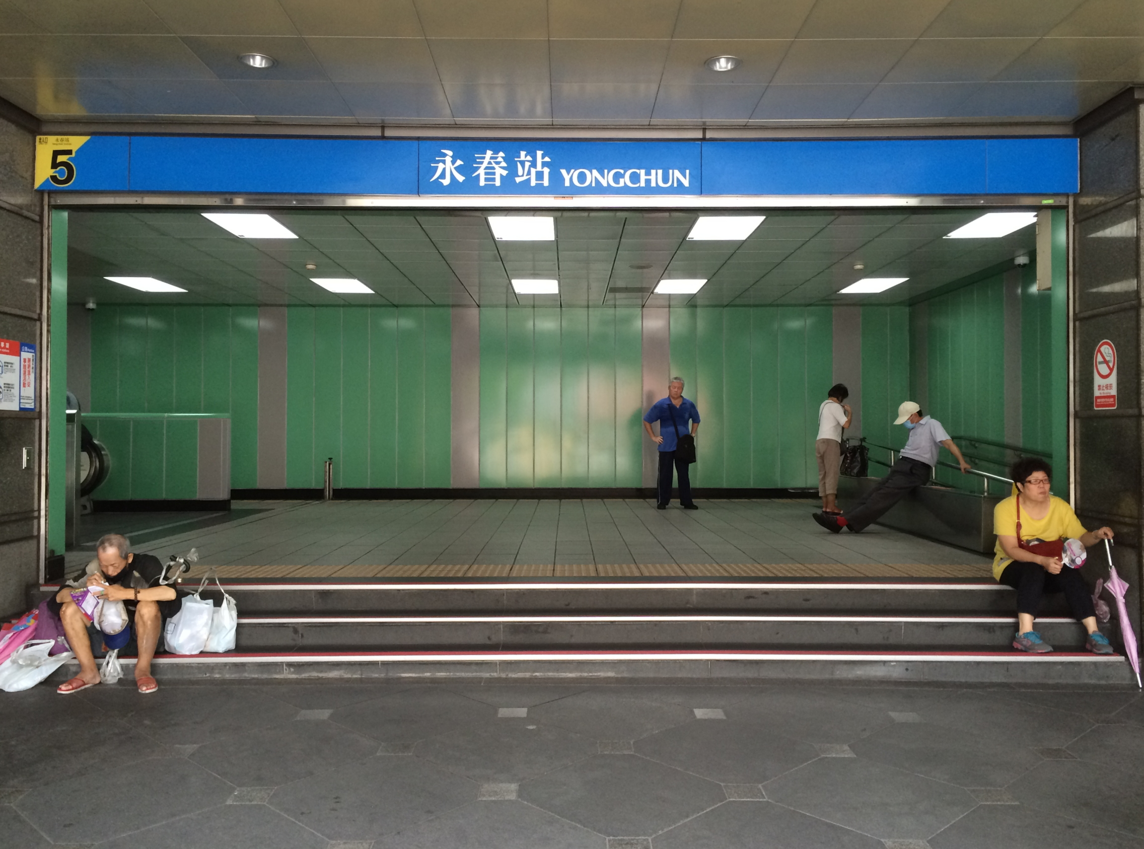 Yongchun Station Exit 5